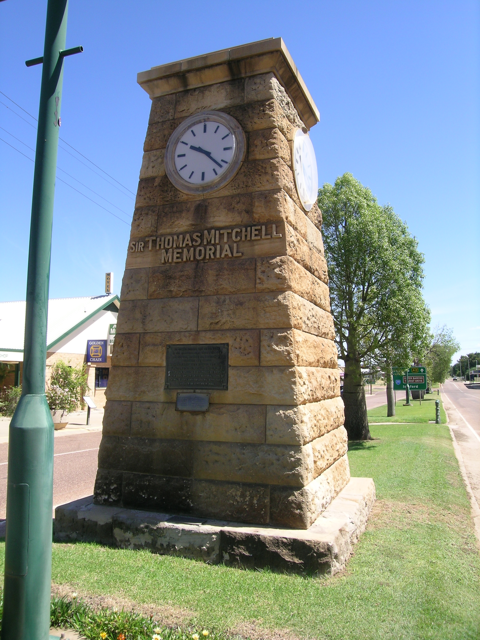 Memorial to Sir Thomas Mitchell, main street, Blackall, QLD.